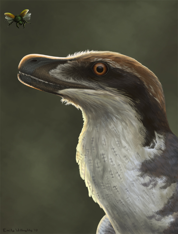 Reconstruction of Acheroraptor, the new Hell Creek dromaeosaur described by Evans et al. November 2013. It's known only from the maxilla and dentary, so only the head and neck are illustrated. It's depicted staring at a hispine beetle, of which there is abundance evidence (Johnson et al 2000) from Hell Creek ichnofossils. Phylogenetic analysis recovers it as a velociraptorine, the most basal member of the group containing Velociraptor, Adasaurus and Tsaagan.